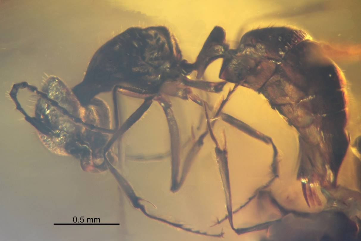 Profile view of the Zigrasimecia ferox holotype. Specimen JWJ-Bu18a Burmese amber, Cenomanian (99mya), Hukawng Valley, Myanmar